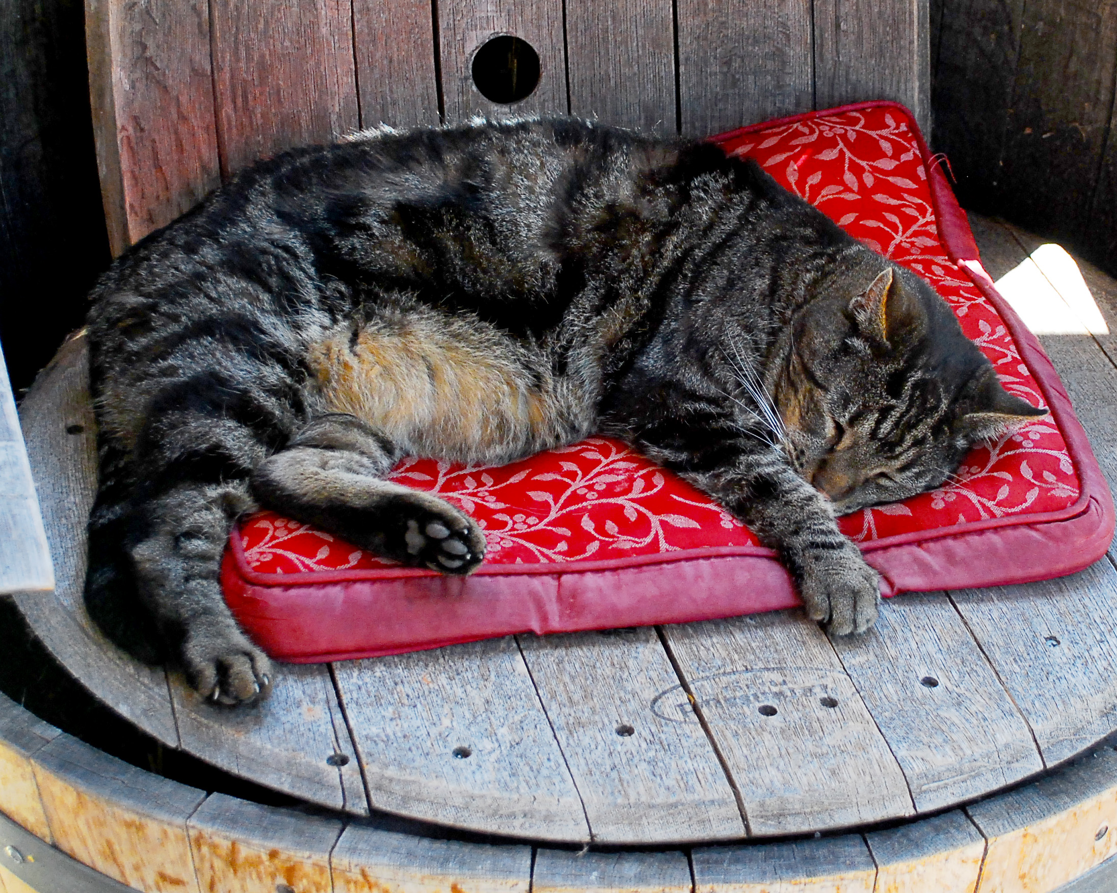 Rotta Winery at Templeton, California, near Paso Robles.